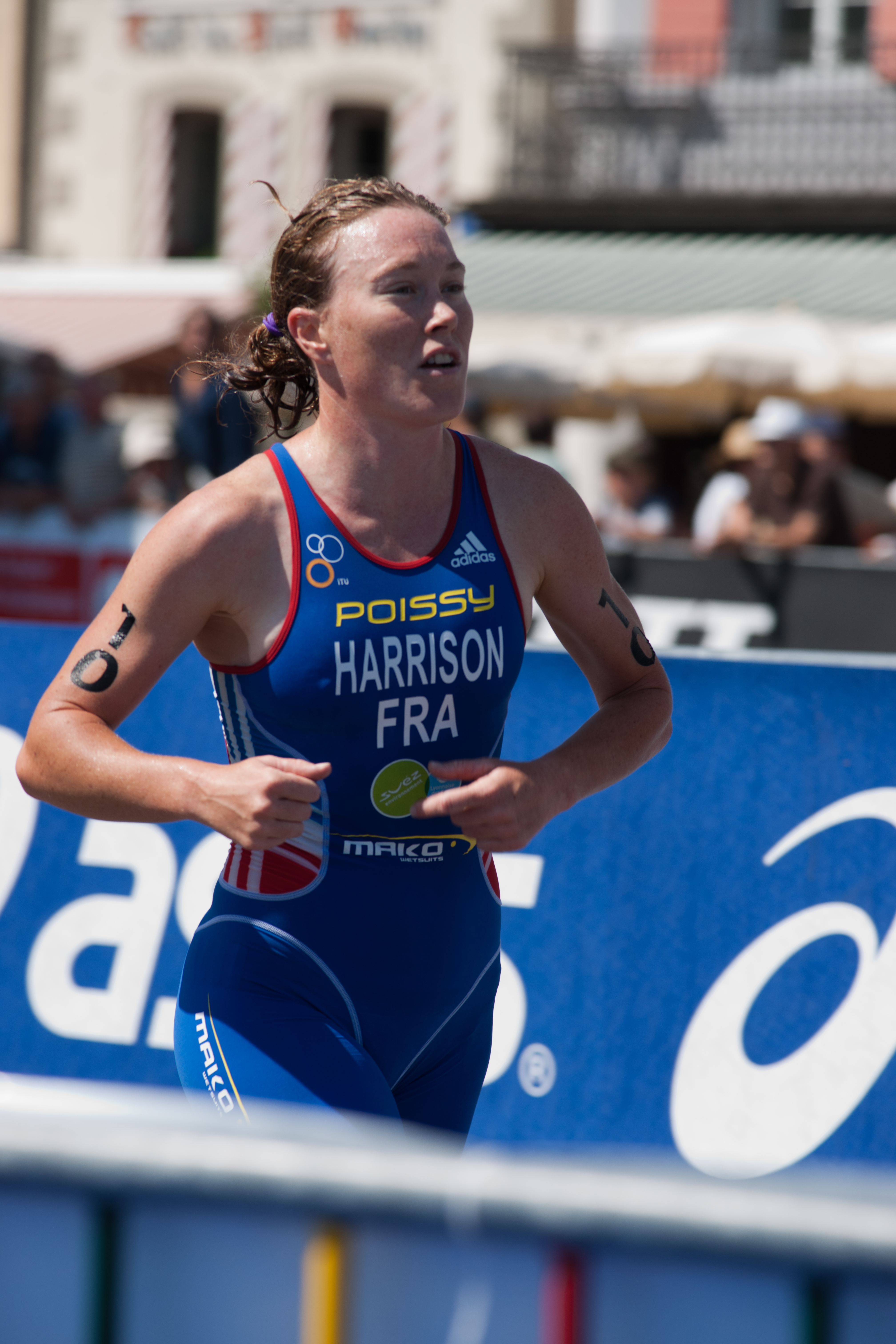 2010 ITU Sprint Distance Triathlon World Championships, Lausanne, Switzerland.